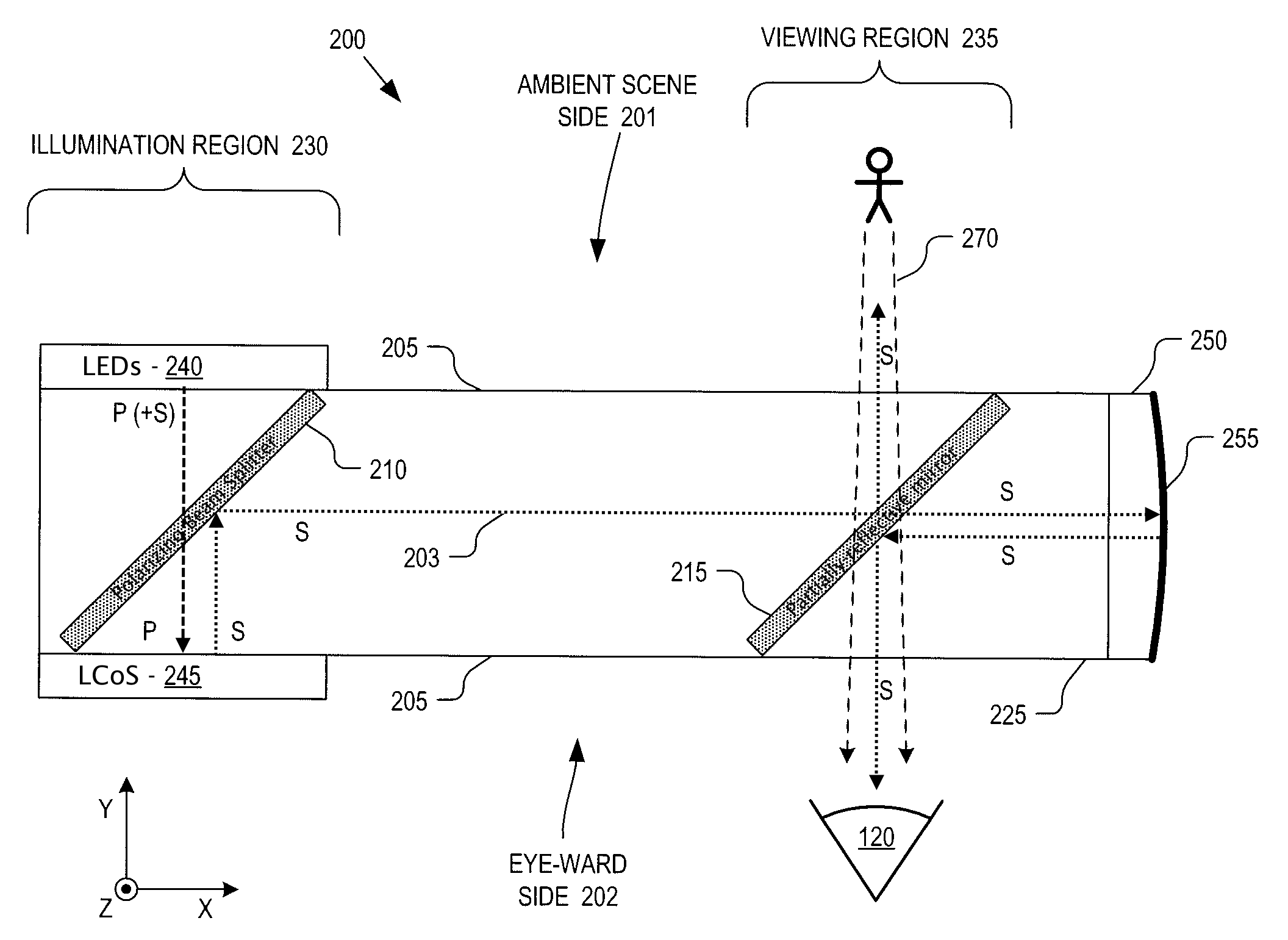 Cross section of an eyepiece (200), for use in a head mounted display (HMD) with components: 120 - viewer's eye 200 - heads-up display eyepiece including: 201 - ambient scene side of eyepiece 202 - eyeward side of eyepiece 203 - forward light propagation path 204 - reverse light propagation path 205 - frame holding components 210 - in-coupling Polarizing Beam Splitter (PBS) 215 - out-coupling partially reflecting half-silvered mirror 230 - illumination region 235 - viewing region 240 - illumination assembly including an LED array with red, green, and blue LEDs and a polarization conversion system composed of a reflector, a wedge with a microlens array, a polarizing diffuser, and a crossed wire-grid polarizer.[1] 245 - Liquid Crystal on Silicon (LCoS) display 250 - plano-convex collimating lens with astigmatism correction; 81.87mm vertical radius, 83.20mm horizontal radius 255 - reflector; formed using a reflective coating on lens 250 270 - external scene